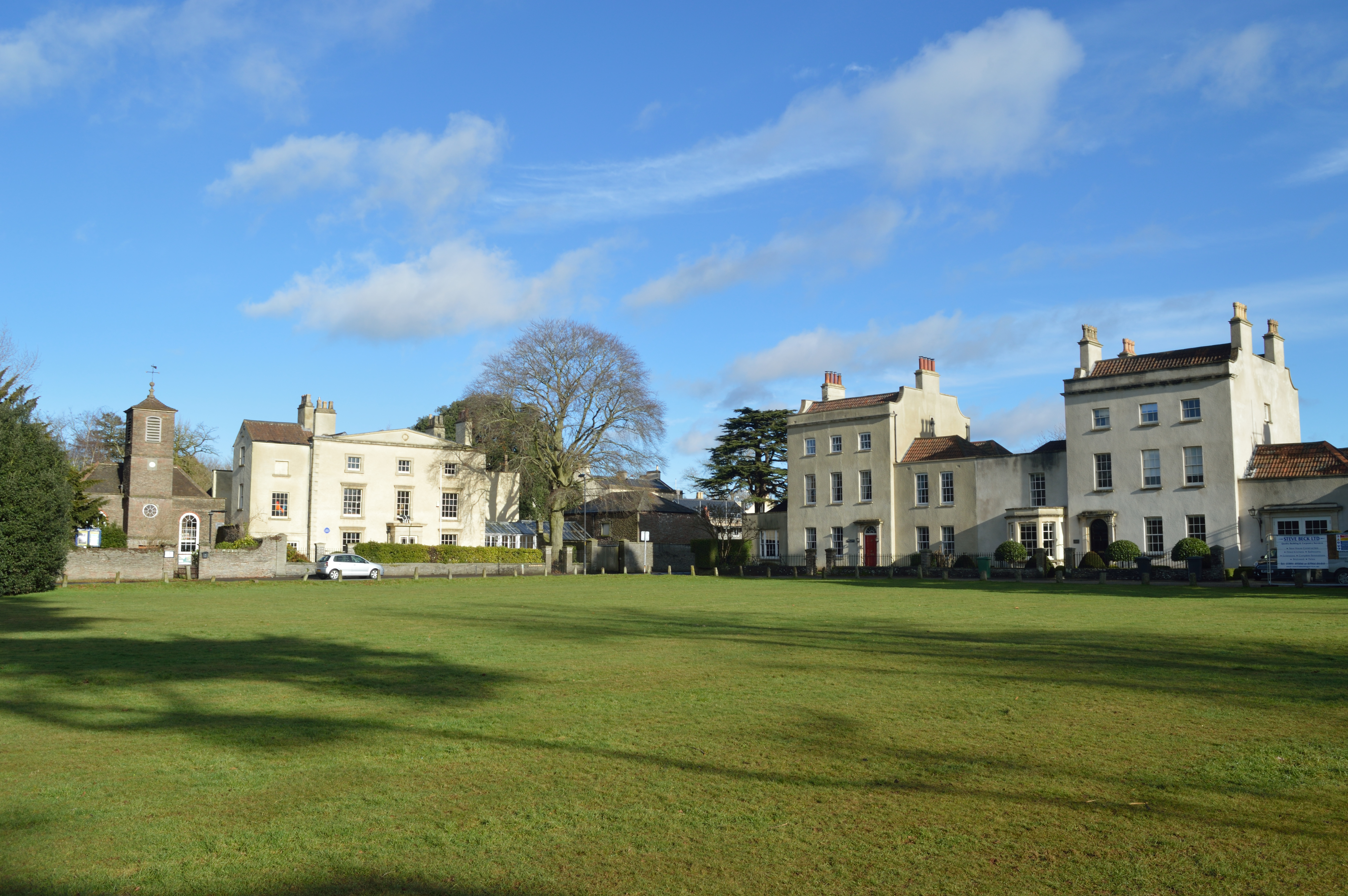 North-east corner of Frenchay Common. The leftmost building is grade II* listed Frenchay Unitarian Chapel. Next to it is grade II listed c.17th The Old House. The two houses on the right are grade II listed late c.18th Bradford's House and House Adjoining.